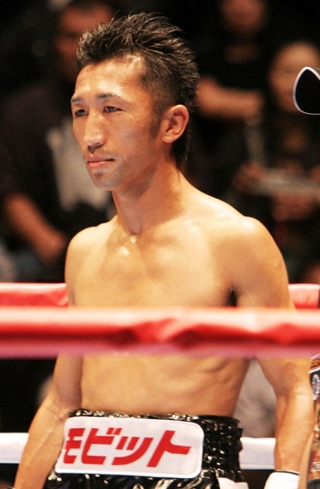 Daisuke Naitō on the ring before the Kōki Kameda fight at Saitama Super Arena on November 29, 2009.